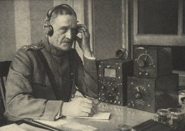 Général Pershing. Marine radiotelegraphy